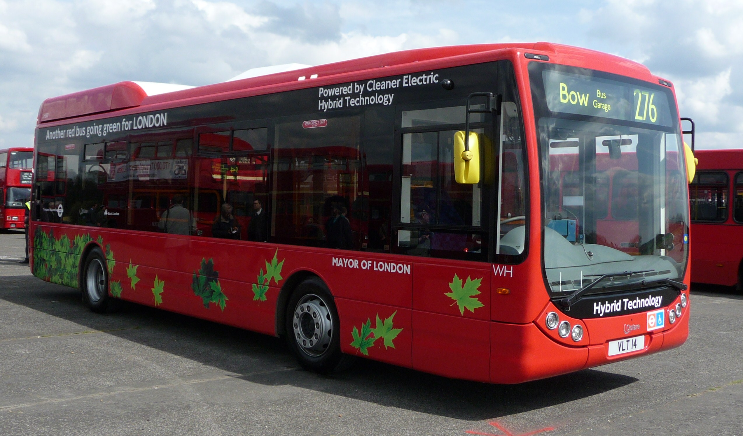 East London's 29001 (VLT 14), a hybrid Optare Tempo, at the 2009 Cobham bus rally at Wisley Airfield. It carries ex-Routemaster registration VLT 14; its original registration is YJ08 PGO.